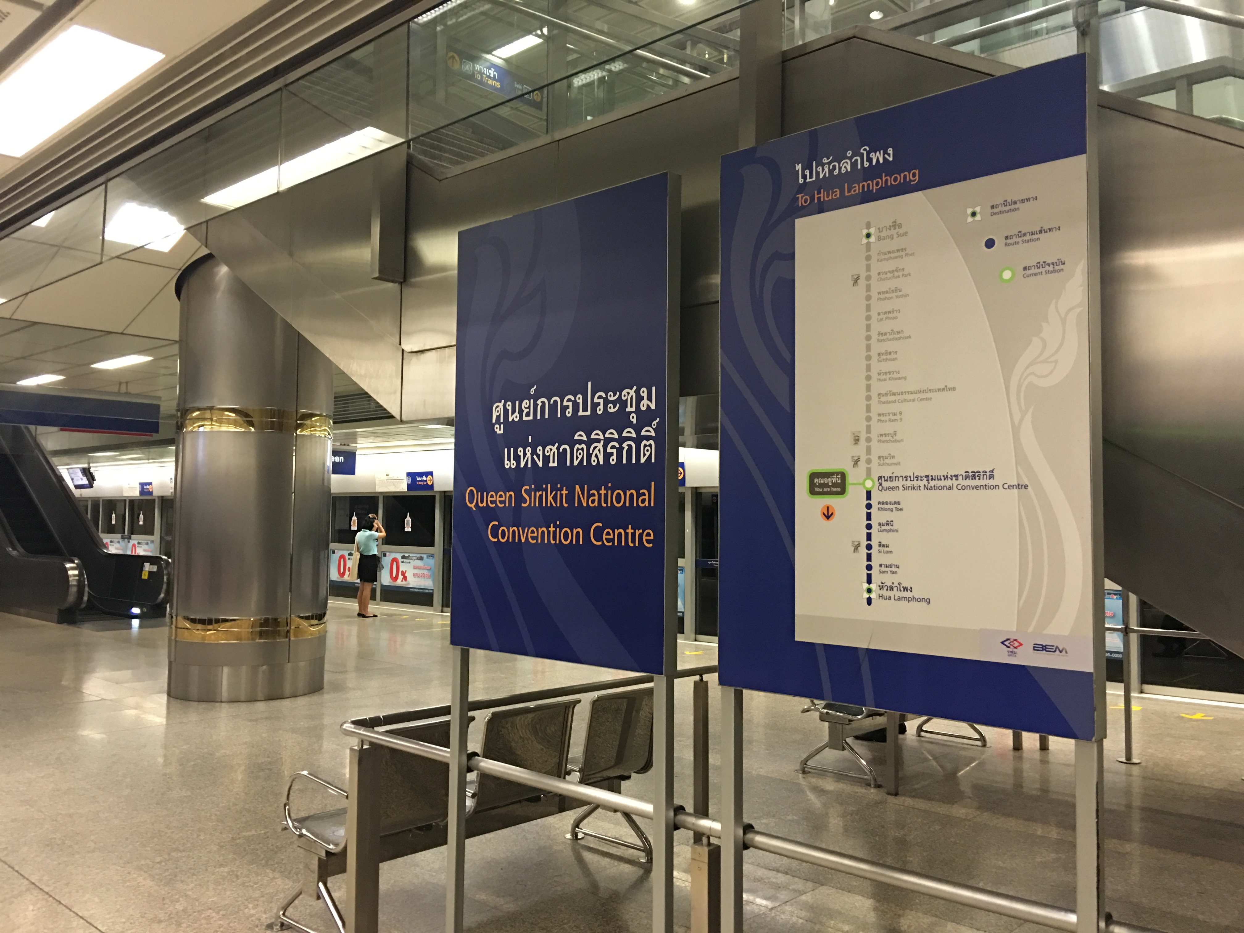 The name sign and route map at Queen Sirikit Centre Station